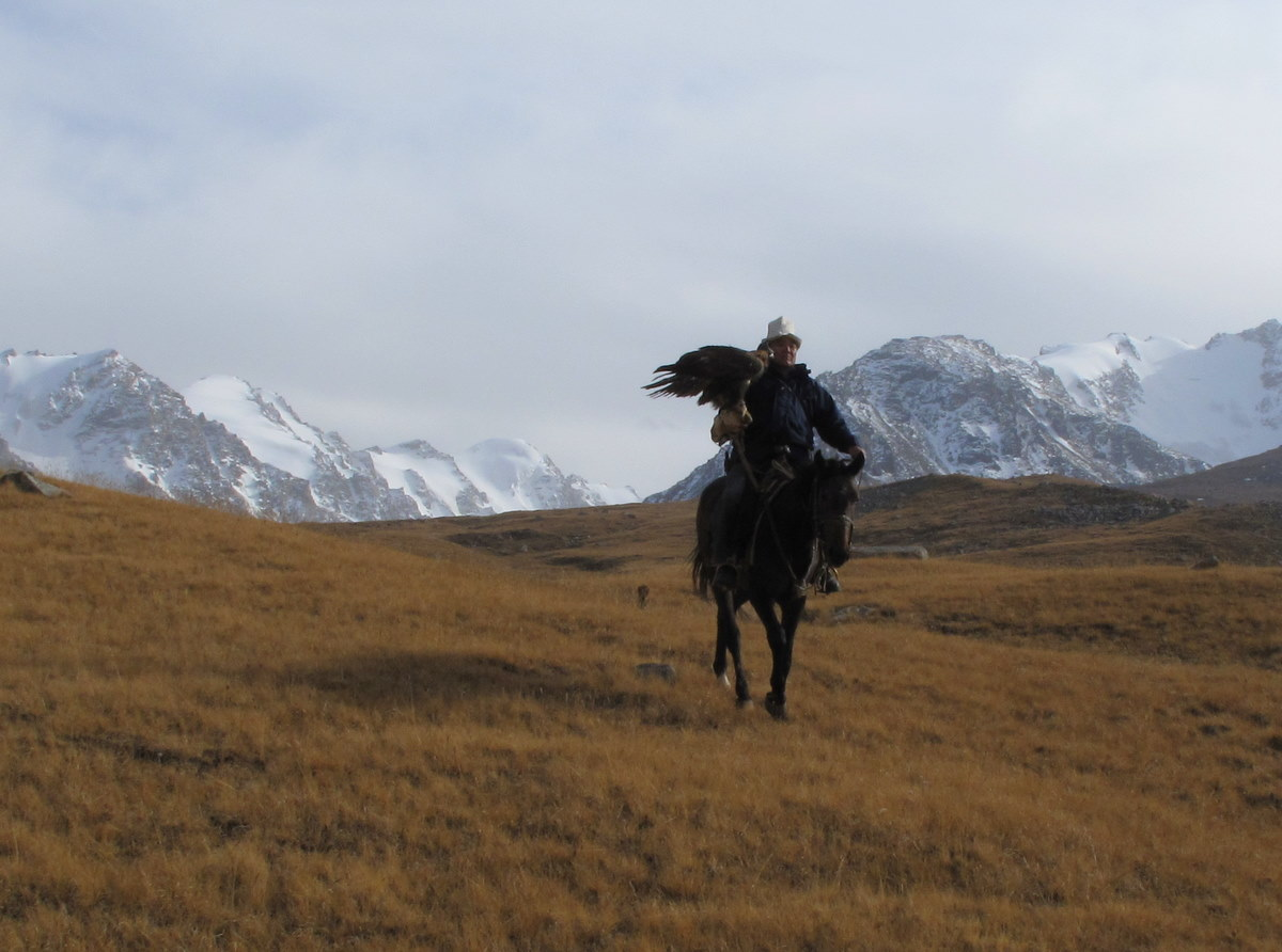 Ishenbek — Berkut and horse ride across the steppe of Kyrgyzstan.